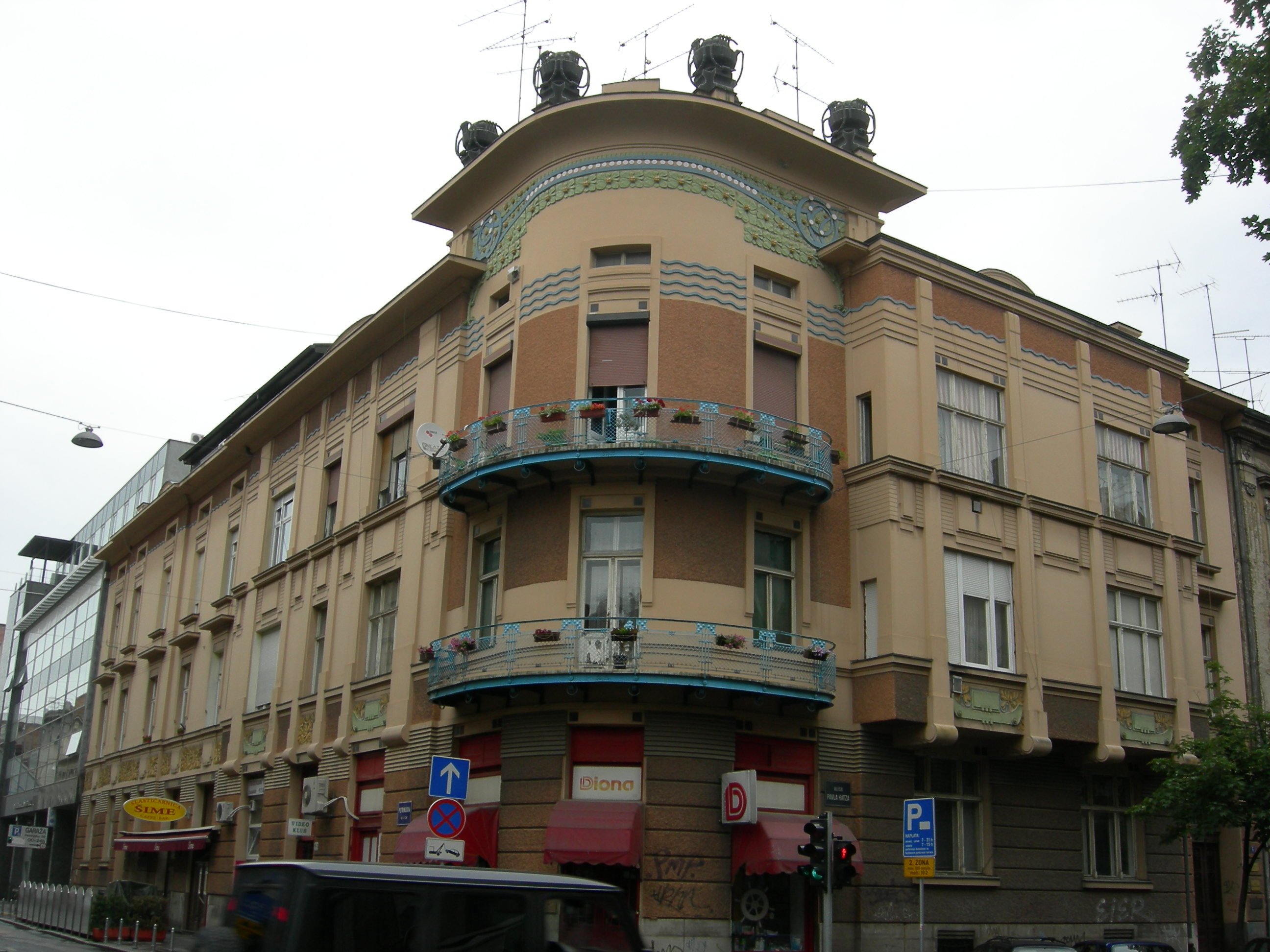 Crossroads Petrinjska Street and Pavla Hatza. It can be seen the famous pâtisserie „Šime“ at No. 61 Petrinjska.